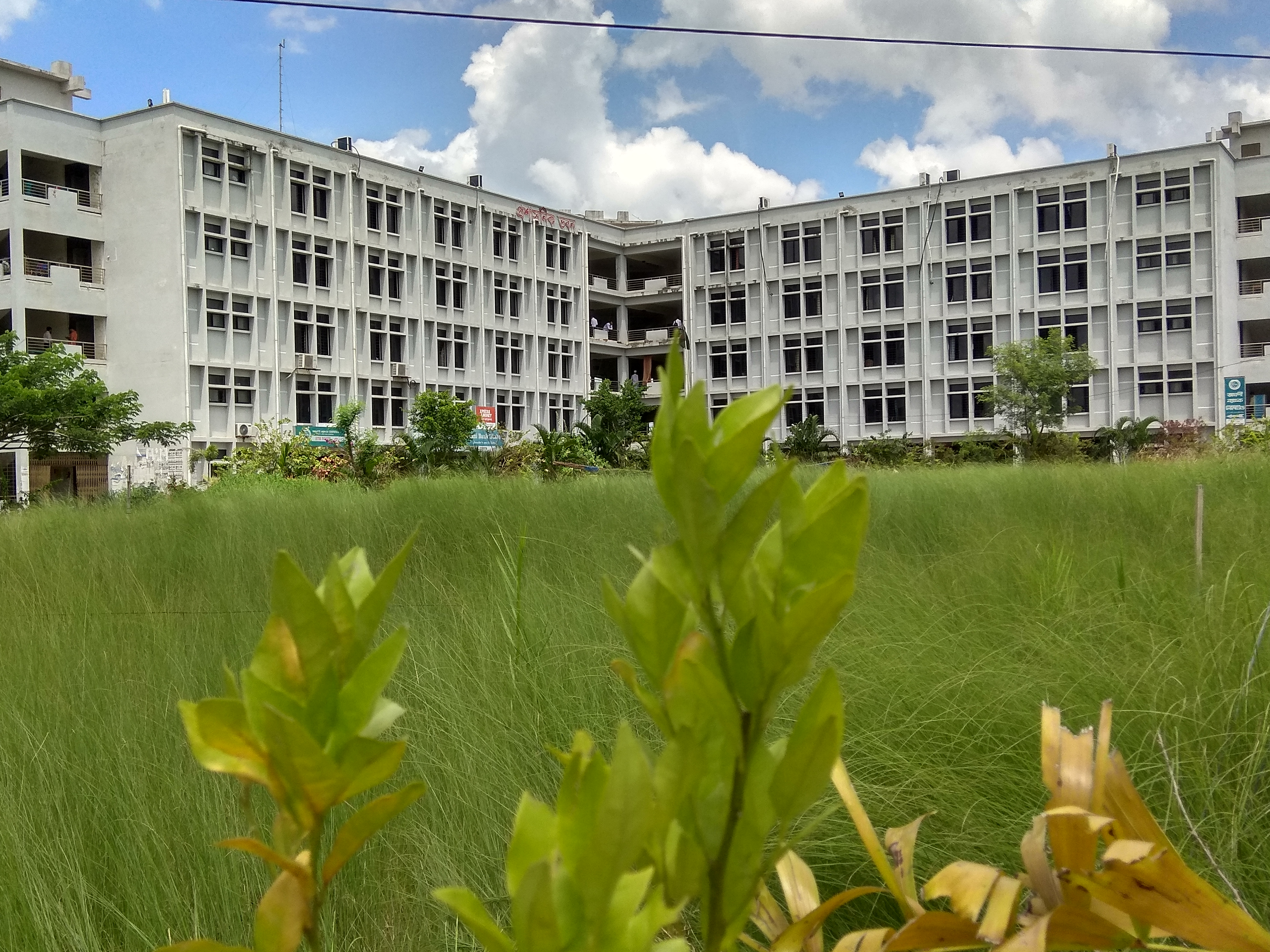 This is the administrative building where all the official works are done and some departments like accounting,history,bangla etc classes helds here...